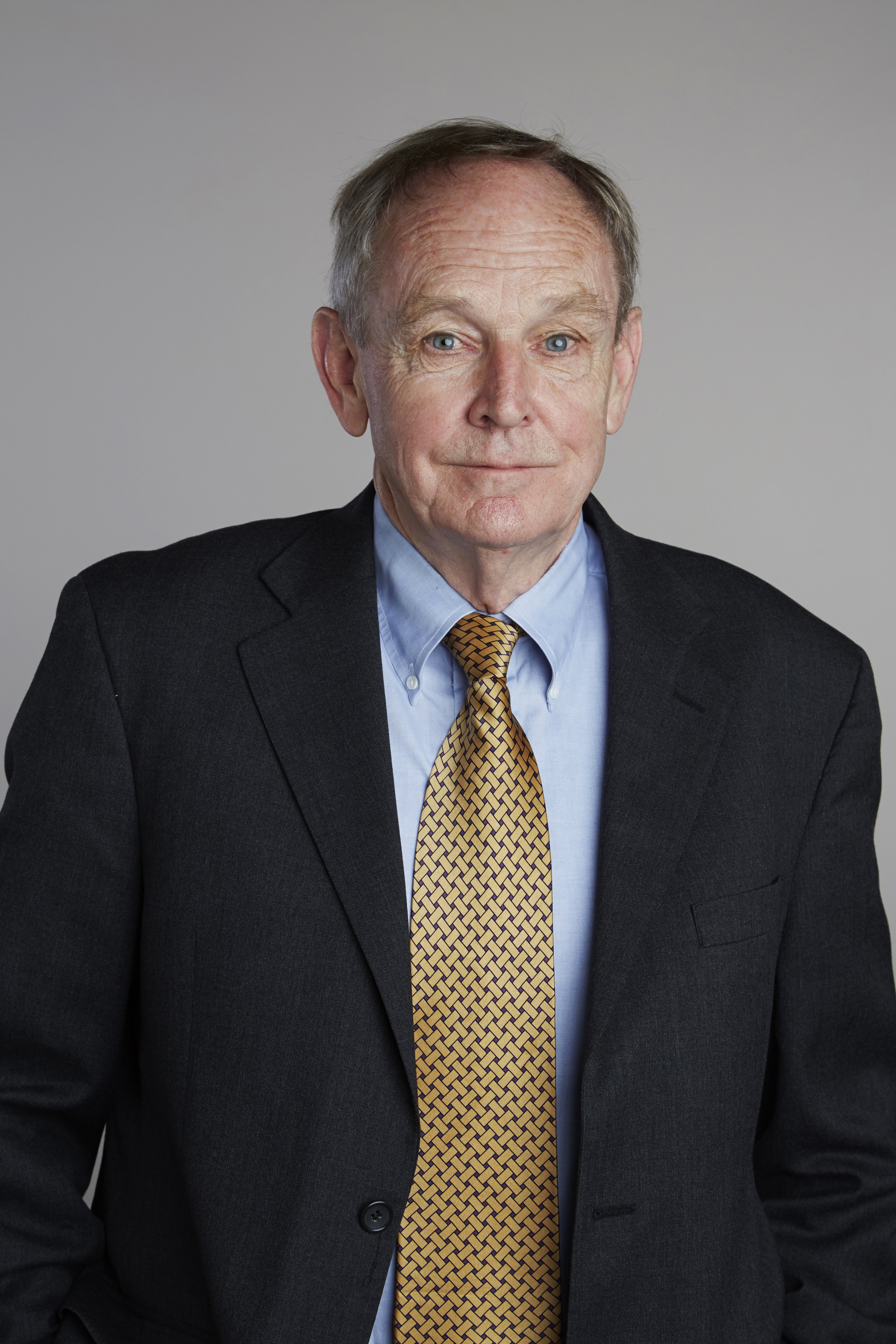 William H. Miller received a B.S. in Chemistry from Georgia Tech (1963) and a Ph.D. in Chemical Physics from Harvard (1967). During 1967-69 he was a Junior Fellow in Harvard's Society of Fellows, the first year of which was spent as a NATO postdoctoral fellow at the University of Freiburg (Germany). He joined the chemistry department of the University of California, Berkeley, as Assistant Professor in 1969 and has been Professor since 1974, serving as Department Chairman from 1989 to 1993 and becoming the Kenneth S. Pitzer Distinguished Professor in 1999. Professor Miller is a member of the US National Academy of Sciences (1987), the American Academy of Arts and Sciences (1993), the Leopoldina (German National Academy of Sciences) (2011), and Foreign Member of the Royal Scoiety (London) (2015). His major awards include the E. O. Lawrence Memorial Award (1985), the Irving Langmuir Award in Chemical Physics (1990), the American Chemical Society Award in Theoretical Chemistry (1994), the Hirschfelder Prize in Theoretical Chemistry (1996), the Ira Remsen Award (1997), the Spiers Medal of the Royal Society of Chemistry (1998), the Peter Debye Award in Physical Chemistry (2003), the Herschbach Award in the Dynamics of Molecular Collisions (2007), the Welch Award in Chemistry (2007), and the Ahmed Zewail Prize in Molecular Sciences (2011). Attribution: The Royal Society